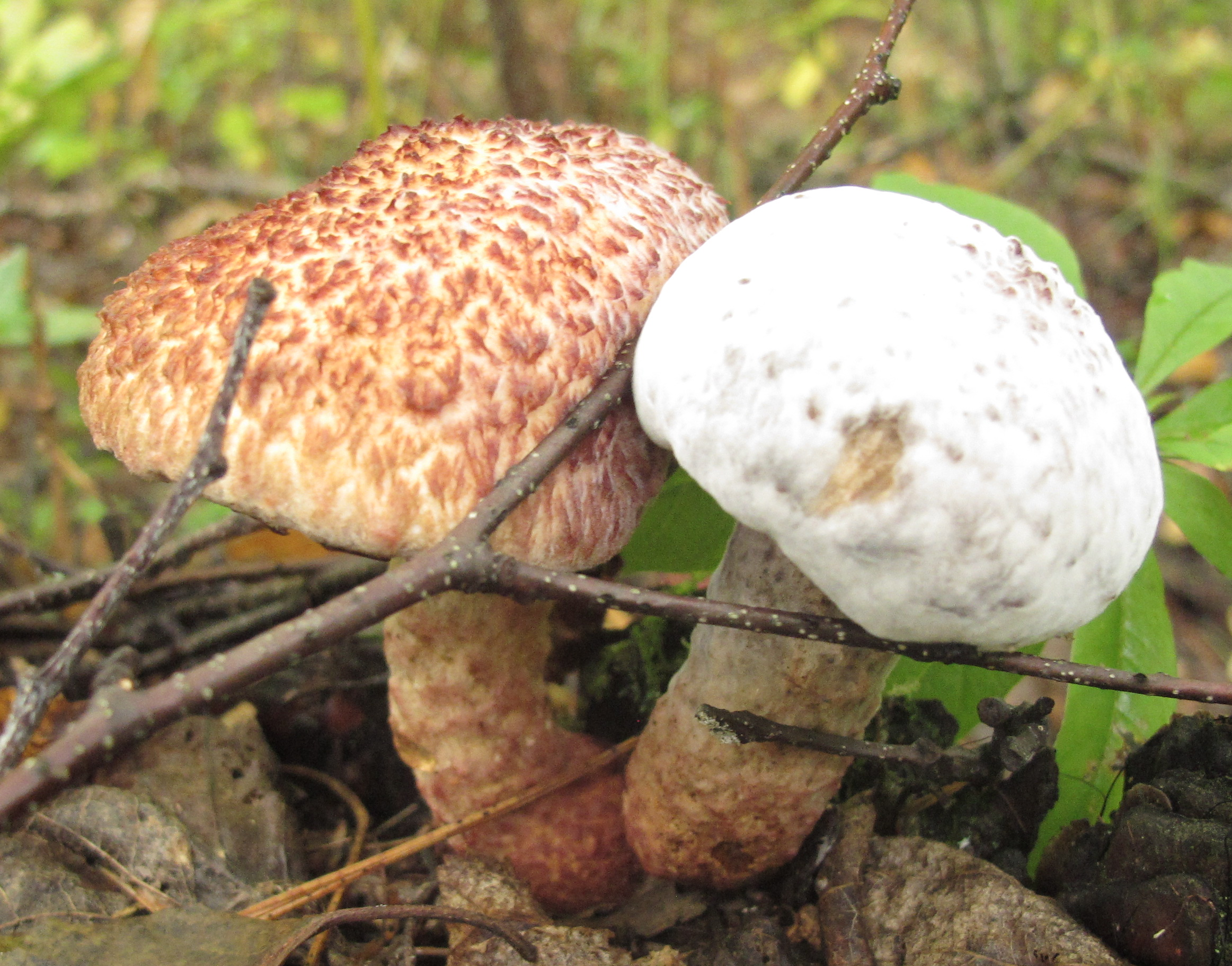 The bolete mold Hypomyces completus (G. Arnold) Rogerson is attacking a fruit body of the fungus Suillus spraguei (also called Suillus pictus, as well as several other synonyms) see (Berk. & M.A.Curtis) Kuntze. Photographed in Bemidji, Minnesota, USA.